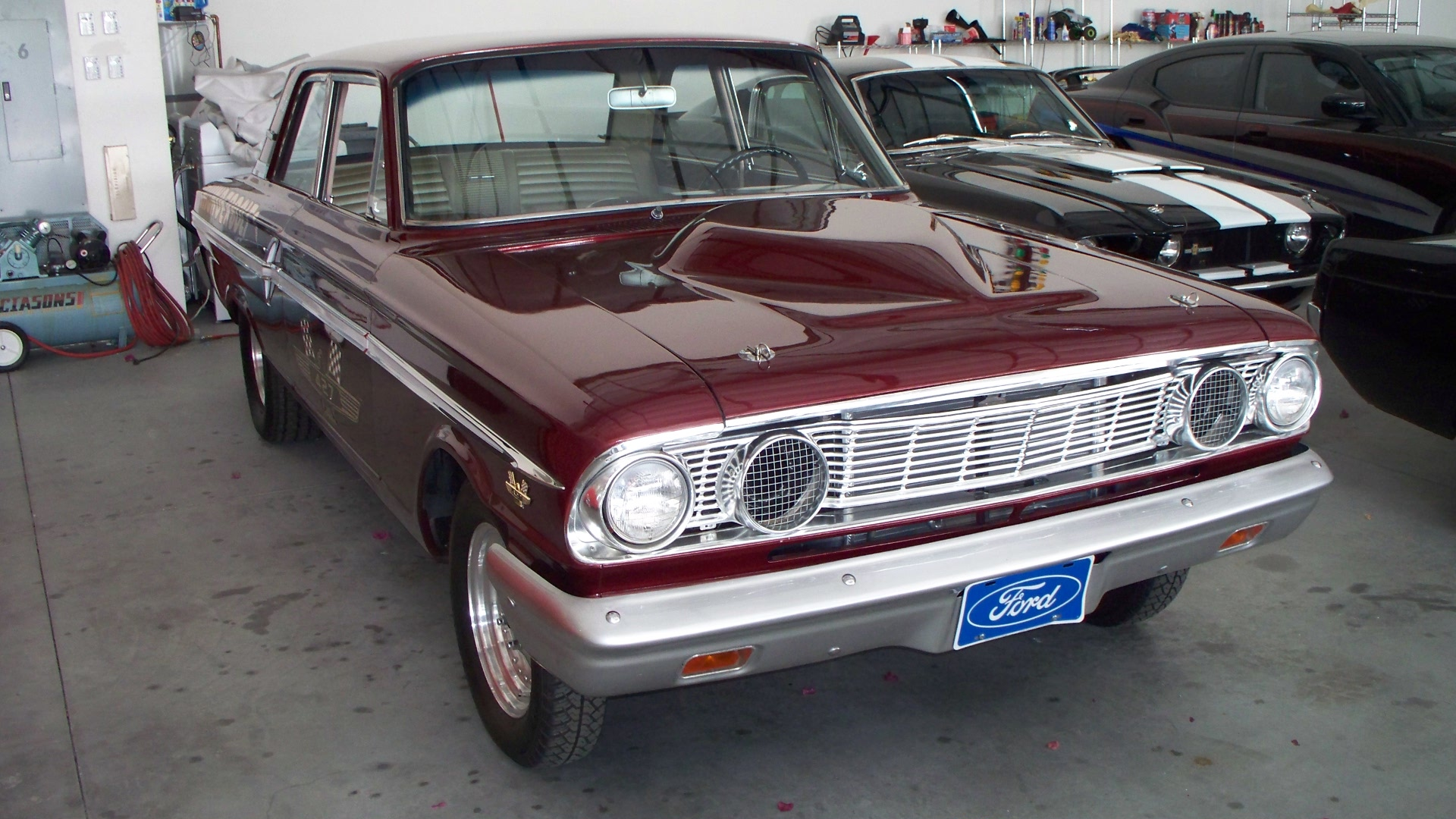 Restored, modified and street-driven 1964 Ford Fairlane Thunderbolt factory experimental drag race car. One of only 100 such cars produced in a joint effort between the Ford Motor Company and Dearborn Steel Tubing. Vehicle at the top right is a modified 1967 Shelby GT-500; the black quarter panel visible to the far right is that of a race-prepared 1966 Shelby GT-350H. The roof at the top right is that of a modified 2006 Dodge Charger.